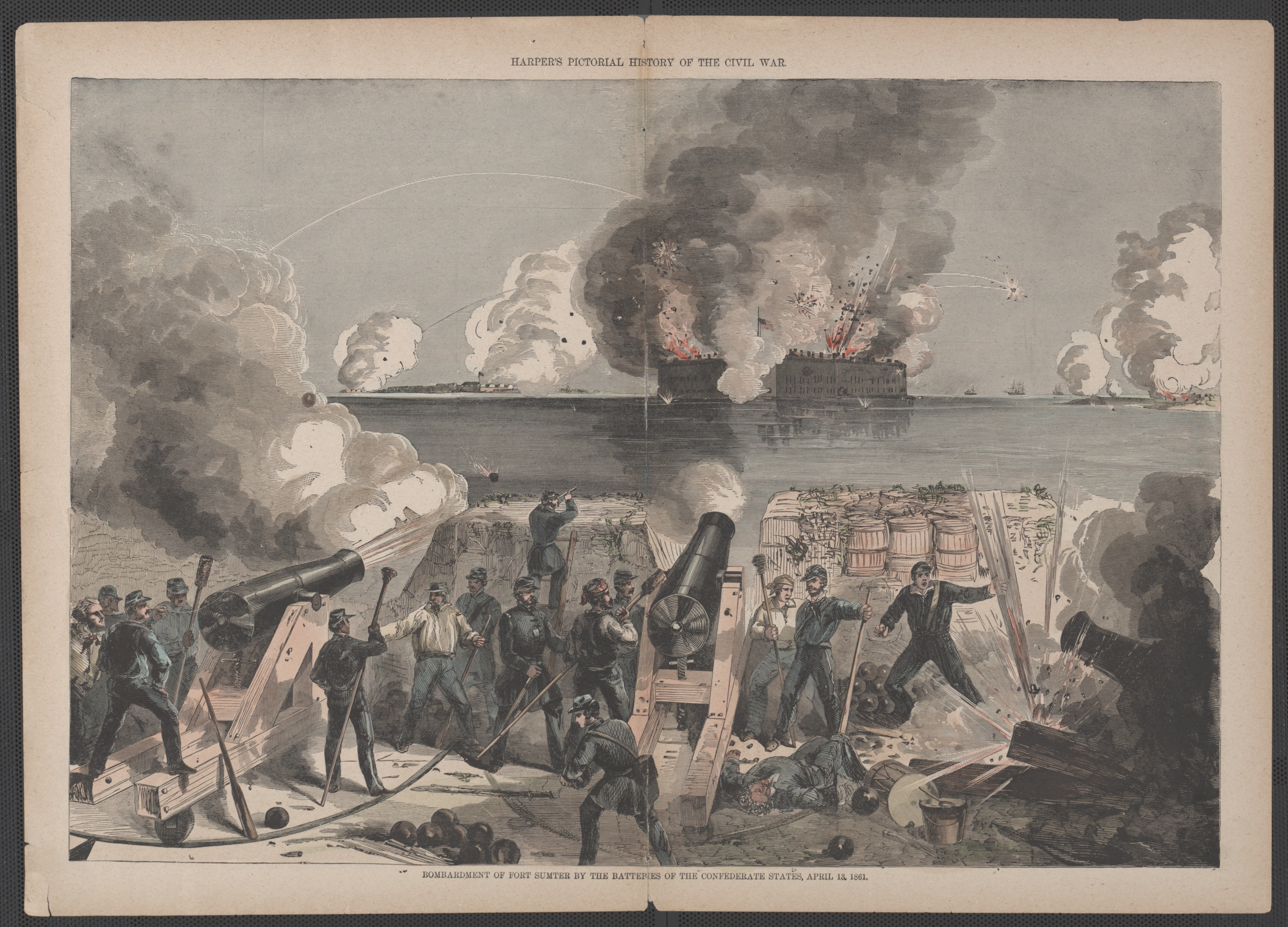 “Bombardment of Fort Sumter by the batteries of the Confederate states,” 1861. Prints and Photographs Division, Library of Congress. Reproduction Number LC-USZ62-90258